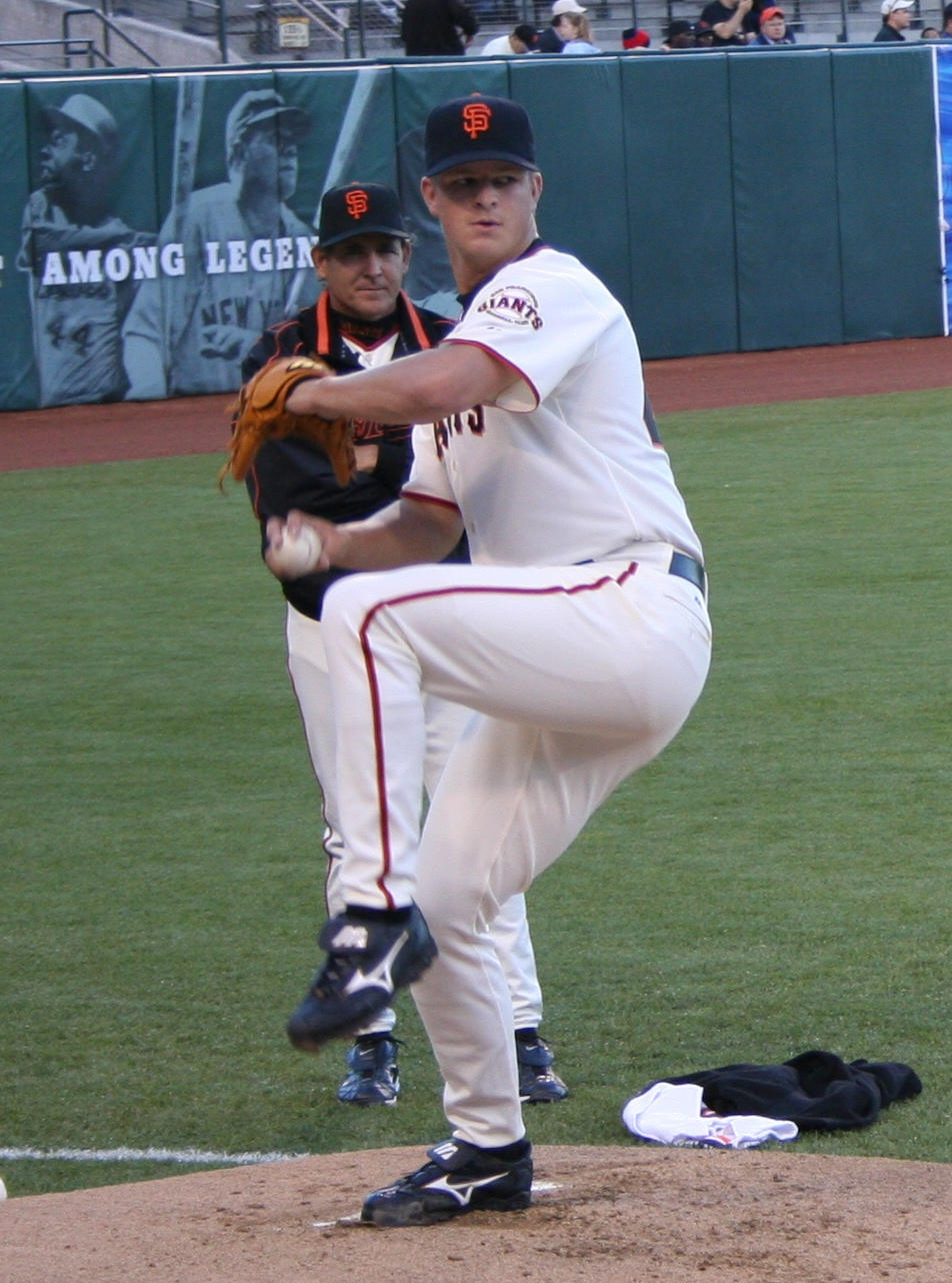 Matt Cain of the San Francisco Giants warming up in the bullpen at SBC Park before his Major League debut on August 29, 2005. 09:01, 1 September 2007 . . StormXor . . 952×1,282 (441 KB)